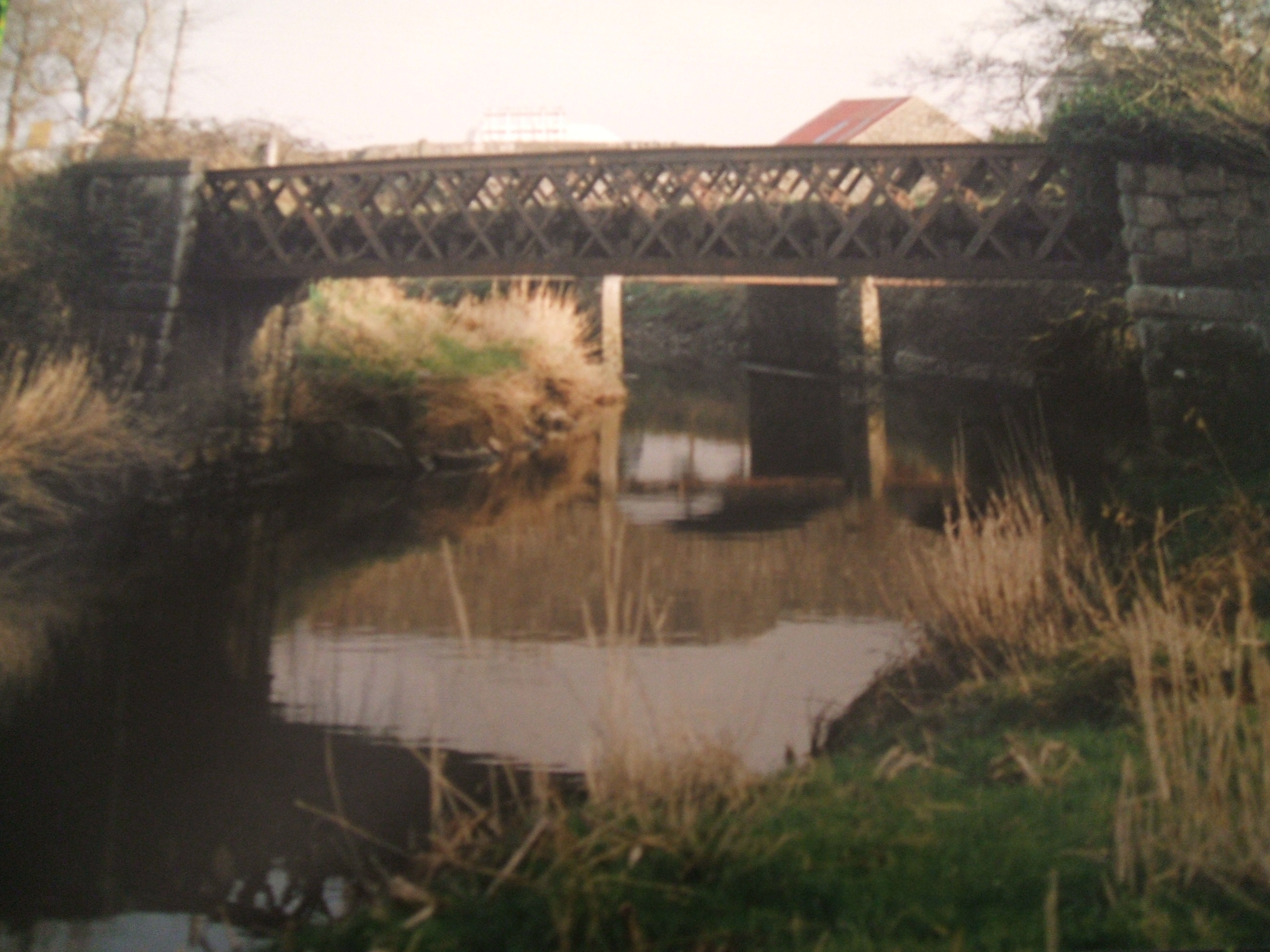 my own photo